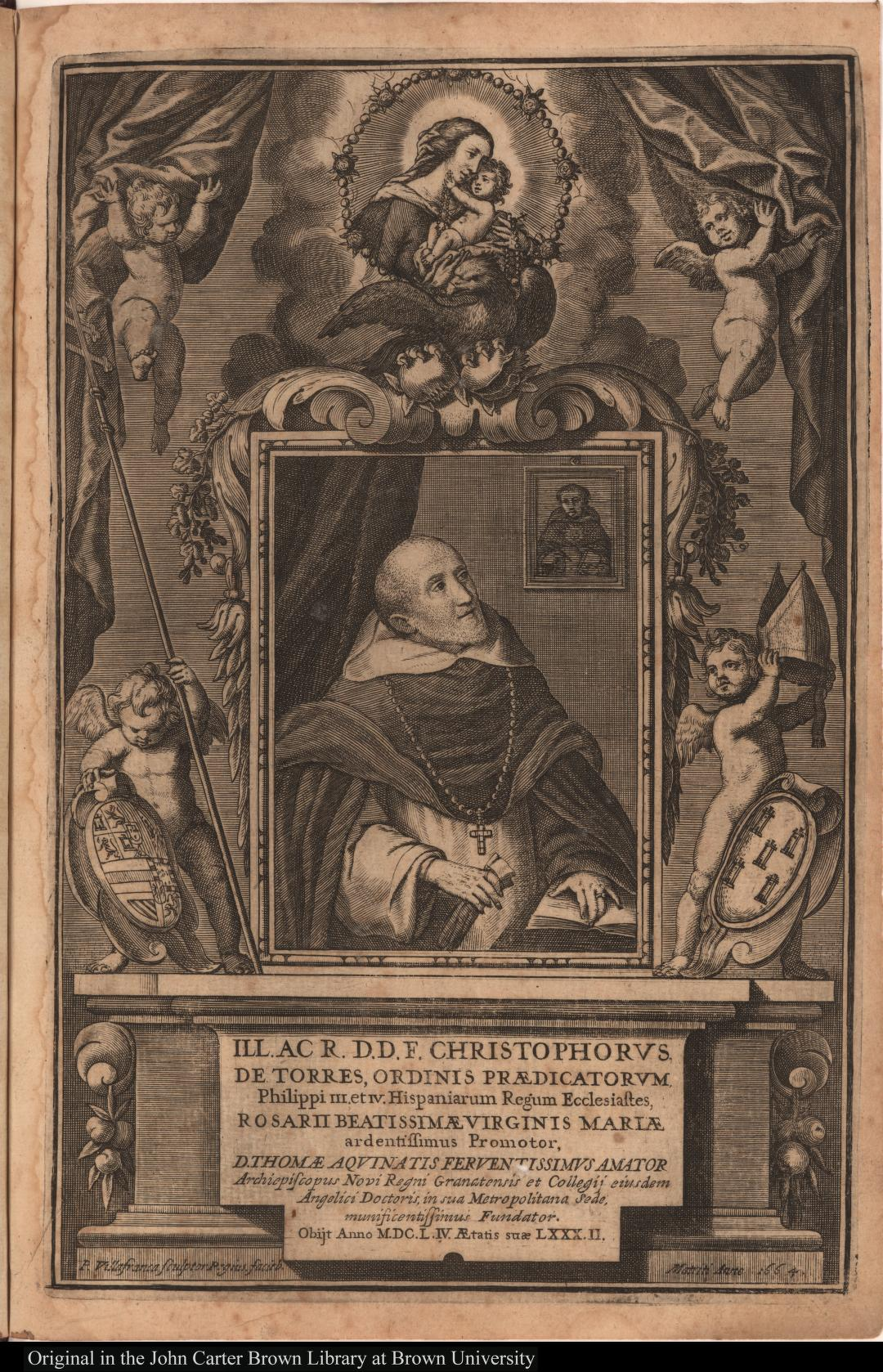 Engraving of Cristóbal de Torres, archbishop of Bogotá and founder of Del Rosario University